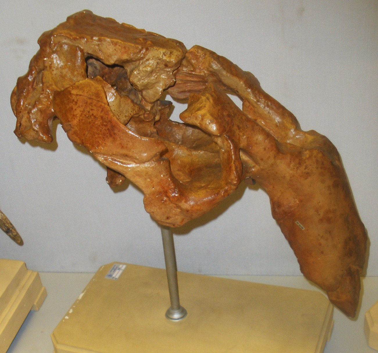 Fossil of Metaxytherium, an extinct mammal. Took the picture at Museo di Paleontologia di Firenze